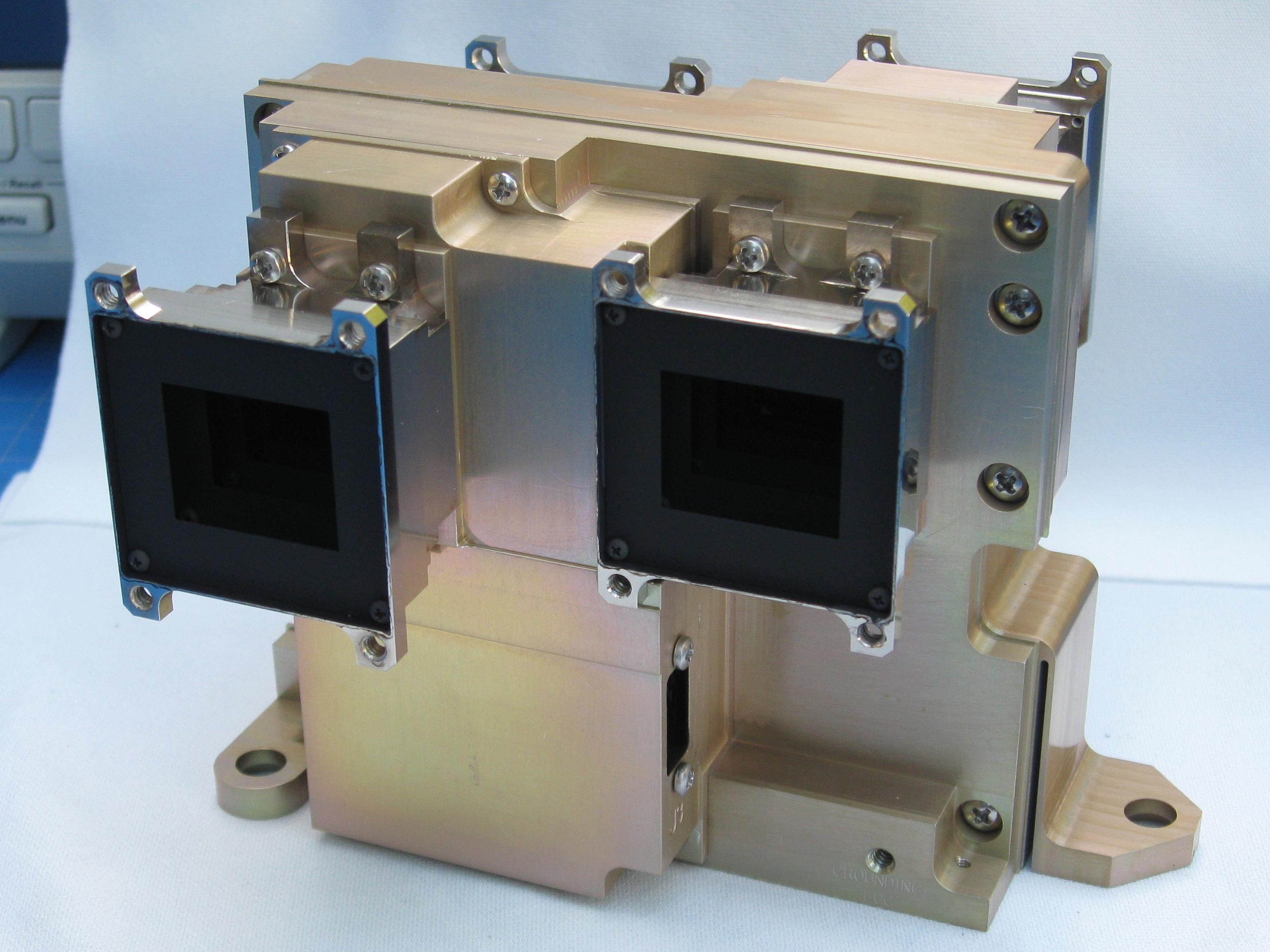 MAVEN instruments : Solar Energetic Particles (SEP)